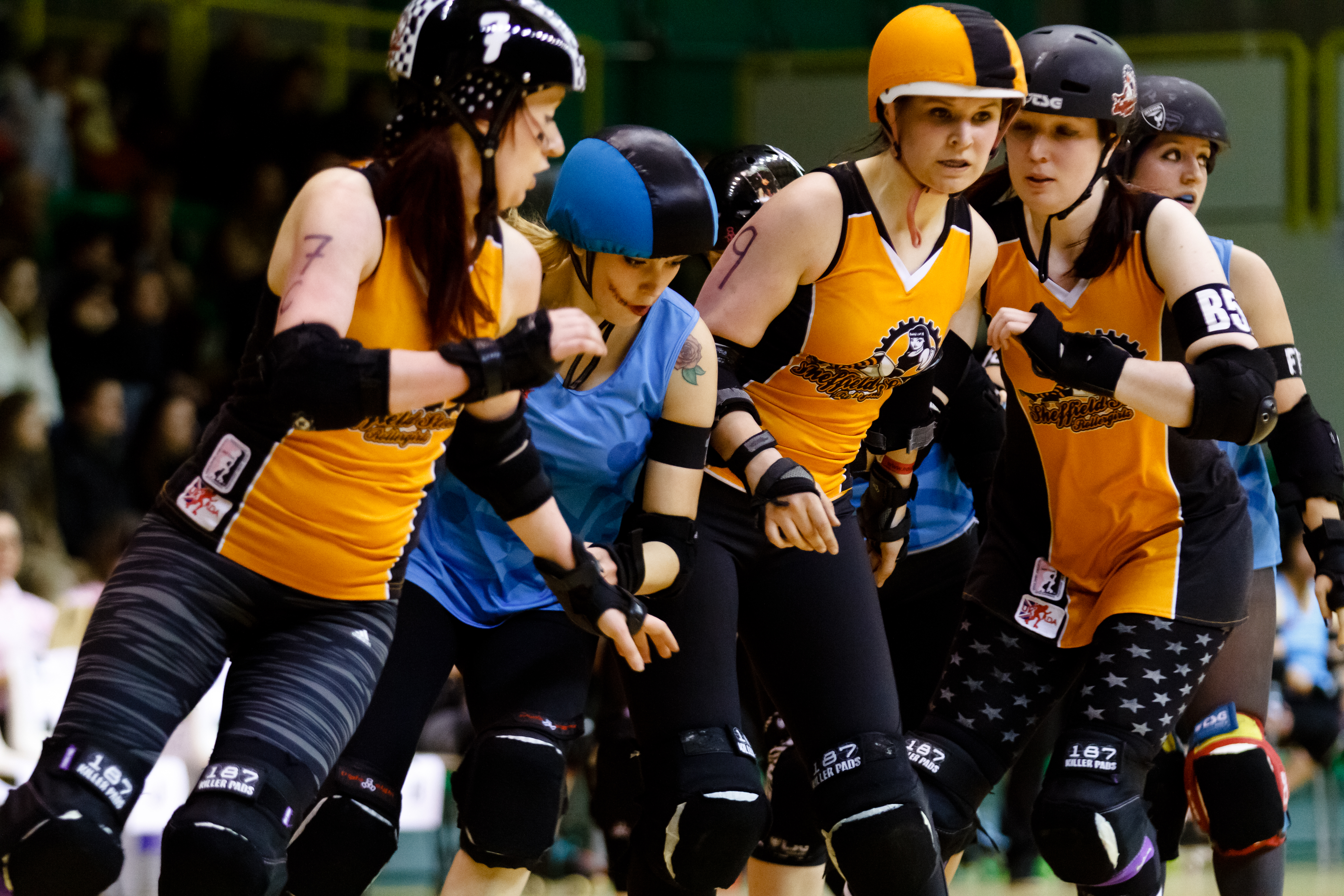 {tournament } — 29 March 2014, Petit palais des sports de Toulouse. Match between: Sheffield Steel Rollergirls — Nothing Toulouse Sheffield Steel Rollergirls vs Nothing Toulouse